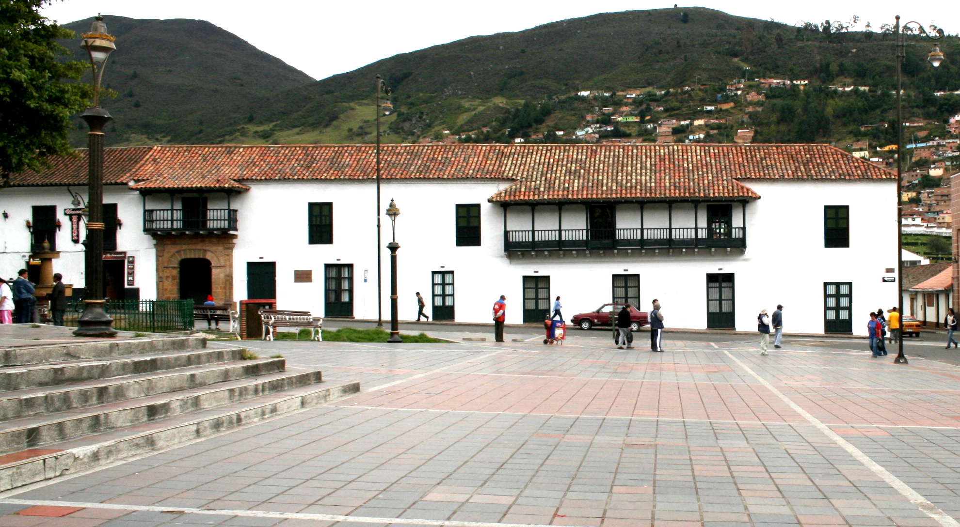 Museum of Modern Art Ramirez Villamizar